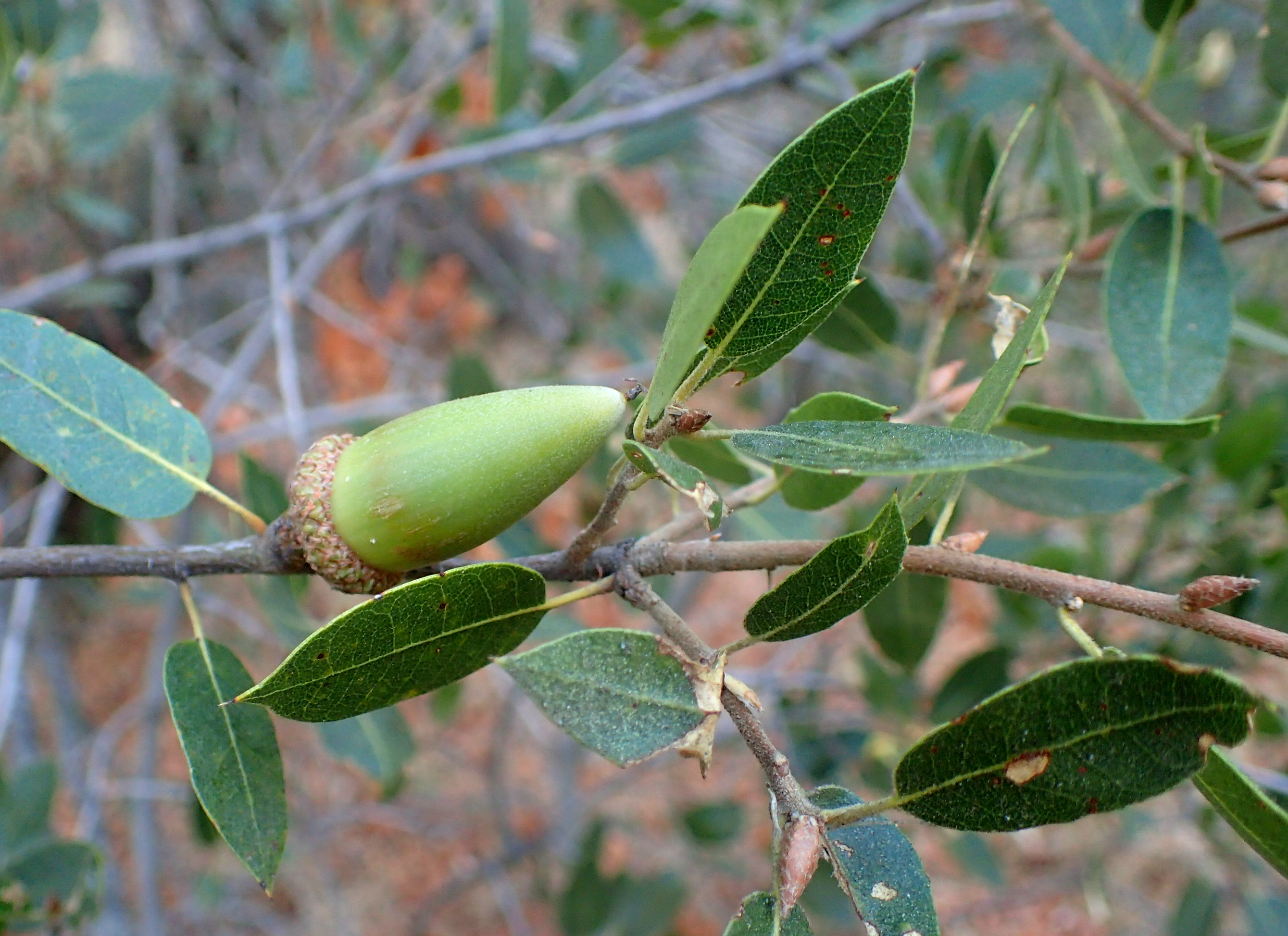 Quercus wislizeni near Potwisha Kaweah River, Sequoia National Park, California